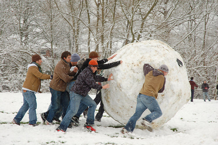 Enormous snowball made in South Park in a snow-covered Oxford